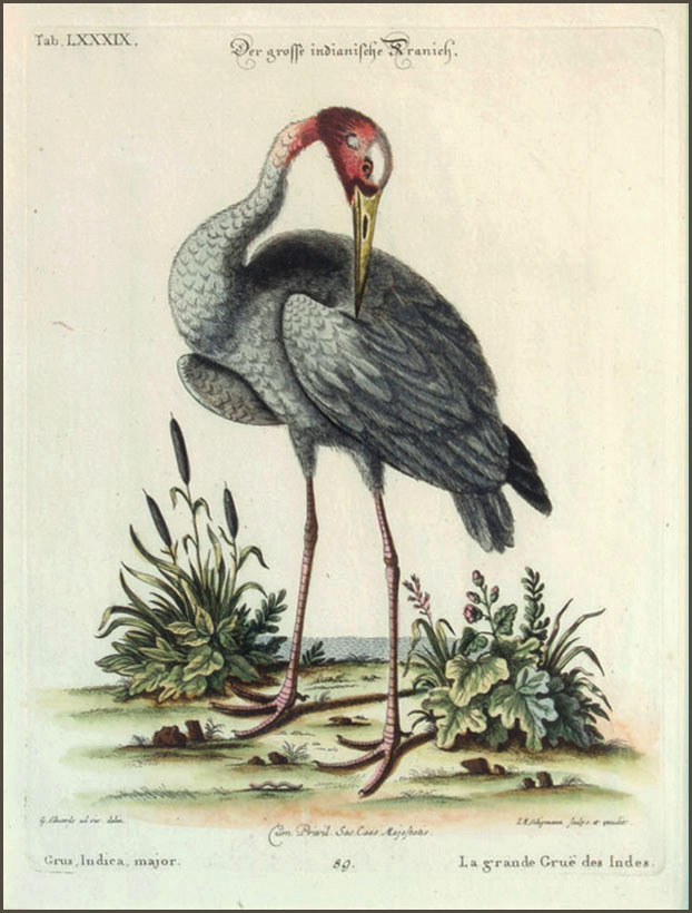 Sarus Crane. Reprint by Johann Michael Seligmann (1720-1762) after George Edwards. From Sammlung verschiedener auslandischer und seltener Vogel, Nurnberg, 1749-76.